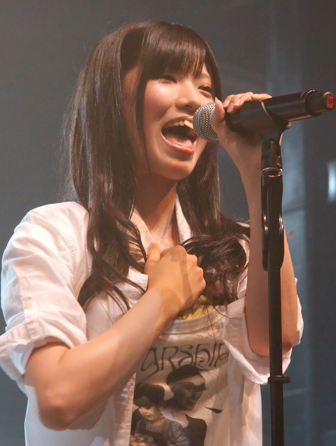 AKB48 live at Japan Expo 2009 (Paris, France).